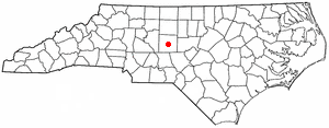 Category:North Carolina Dot Maps